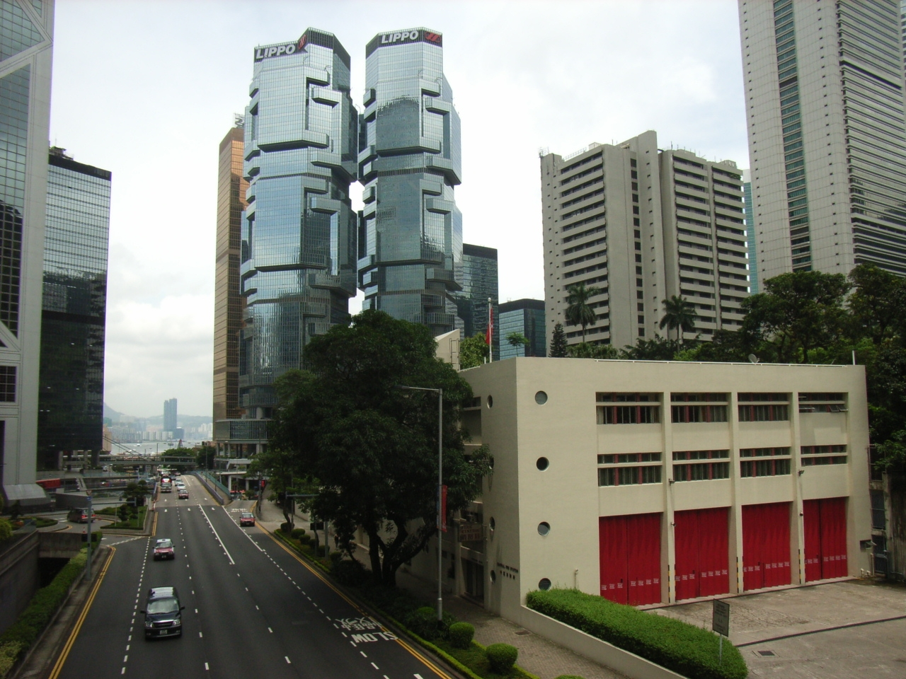 Cotton Tree Drive, Admiralty, Hong Kong Photographer is User:Coooled